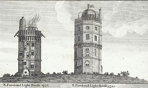 A view of North Foreland Lighthouse in 1736 alongside a view of the same lighthouse in 1793 (i.e. before and after the rebuilding of the tower).